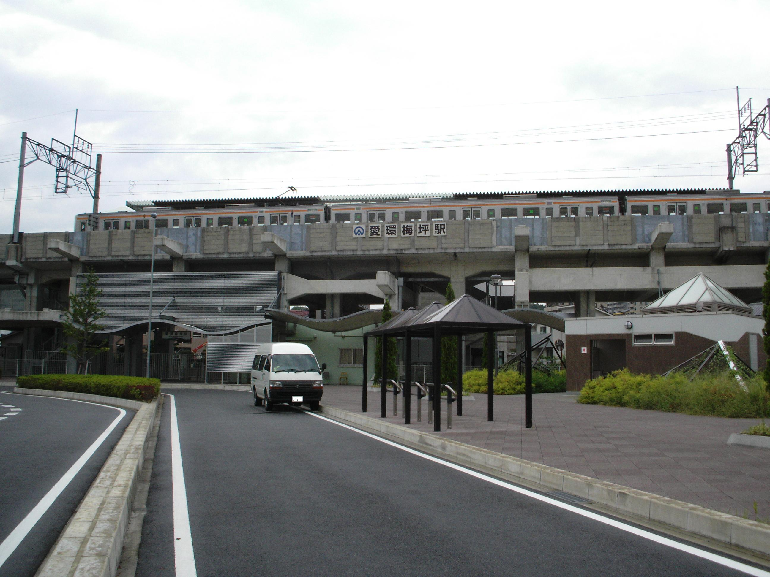 Aikan-Umetsubo Station